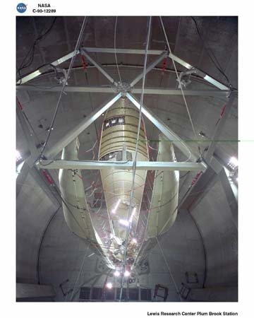 Titan IV payload fairing after jettison test in three parts seen above.